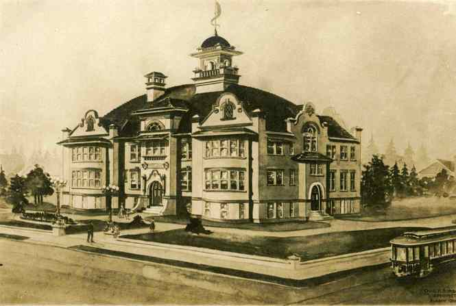 A drawing of James John High School in St. Johns, Oregon. The high school opened in 1910 and closed in 1923 after Roosevelt High School opened. It burned in the 1930s.